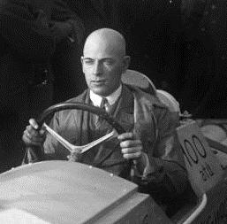 Title: Max Valier im Raketenauto Extra information: Berlin.- Max Valier am Steuer seines Raketenwagens Valier RAK 6 auf der Avus, Rückstoss-Versuchs-Wagen People in the image: Valier, Max: Ingenieur, Schriftsteller, Erfinder des Raketenautos, Factual corrections and alternative descriptions are encouraged separately from the original description. Additionally errors can be reported at this page to inform the Bundesarchiv. Original historic description